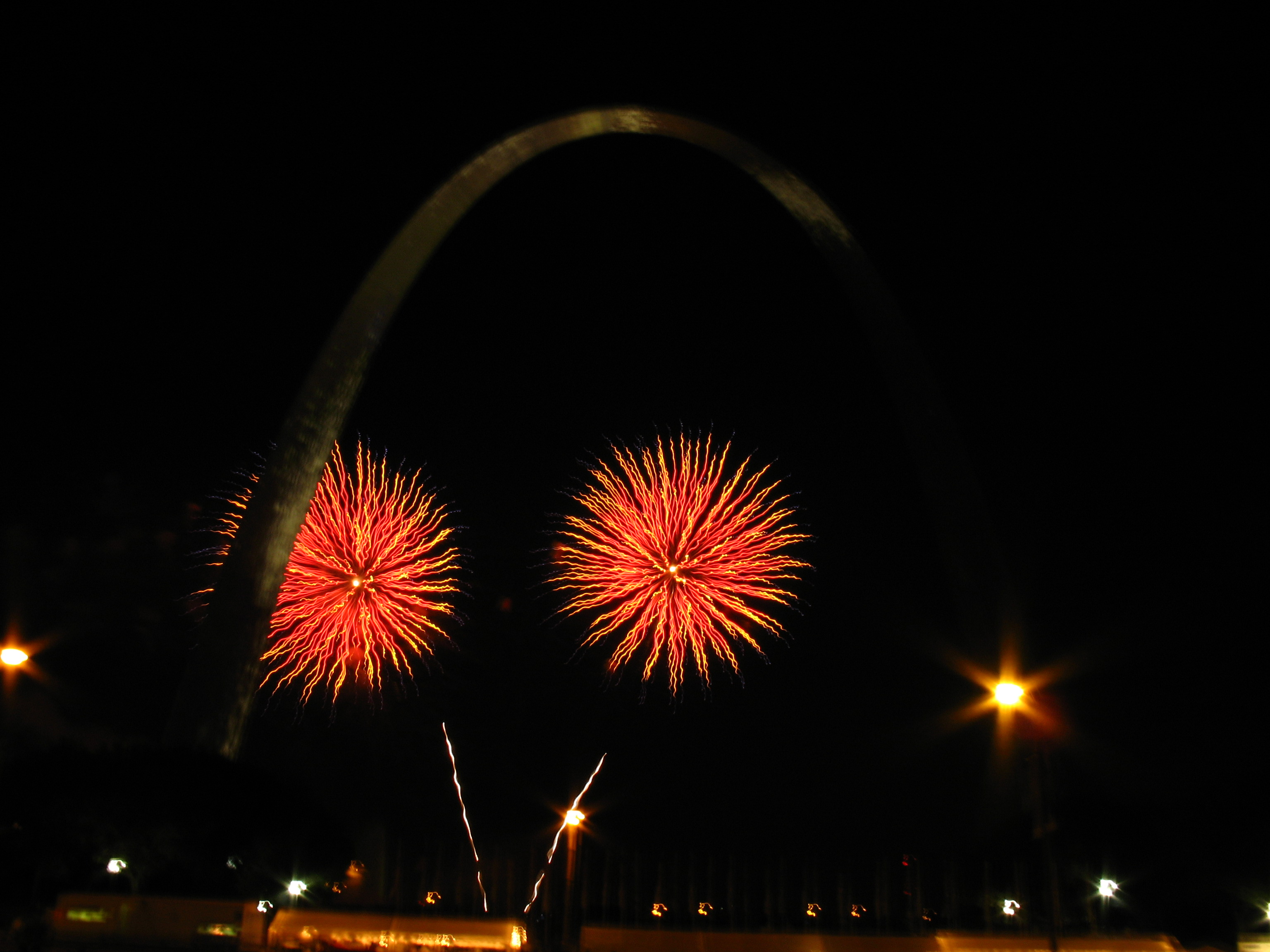 Fireworks by the Arch (Jefferson National Expansion Memorial)